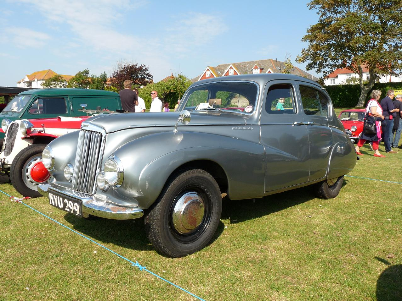 1950 Sunbeam-Talbot (DVLA) first registered 20 April 1950, 1944 cc Bexhill 100 Motor Club Classic and Custom Car Show 2013